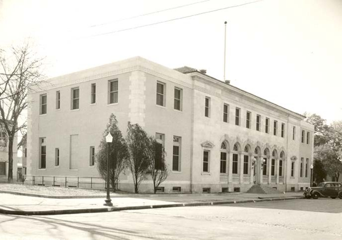 U.S. Post Office and Court House (1935), Waycross (Ware County, Georgia). cropped This work is in the public domain in the United States because it is a work prepared by an officer or employee of the United States Government as part of that person’s official duties under the terms of Title 17, Chapter 1, Section 105 of the US Code. See Copyright. Note: This only applies to original works of the Federal Government and not to the work of any individual U.S. state, territory, commonwealth, county, municipality, or any other subdivision. This template also does not apply to postage stamp designs published by the United States Postal Service since 1978. (See § 313.6(C)(1) of Compendium of U.S. Copyright Office Practices). It also does not apply to certain US coins; see The US Mint Terms of Use. This file has been identified as being free of known restrictions under copyright law, including all related and neighboring rights. Object location31° 12′ 33″ N, 82° 21′ 43″ W